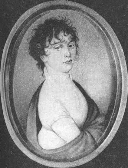 Julieta Gvinchardi